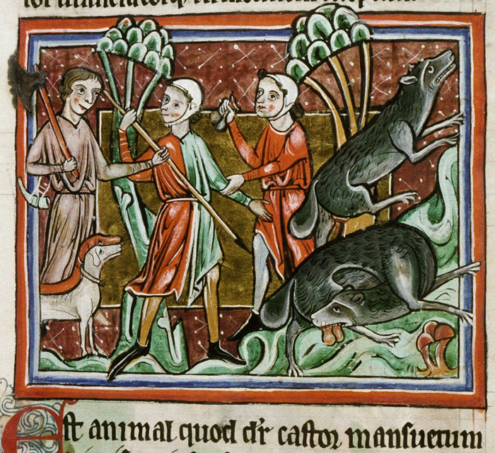 Beaver hunt from a medieval bestiary. The beaver at the bottom is about to bite his own testicles off. MS. Bodley 764, Folio 14r (c. 1250), Bodleian Library